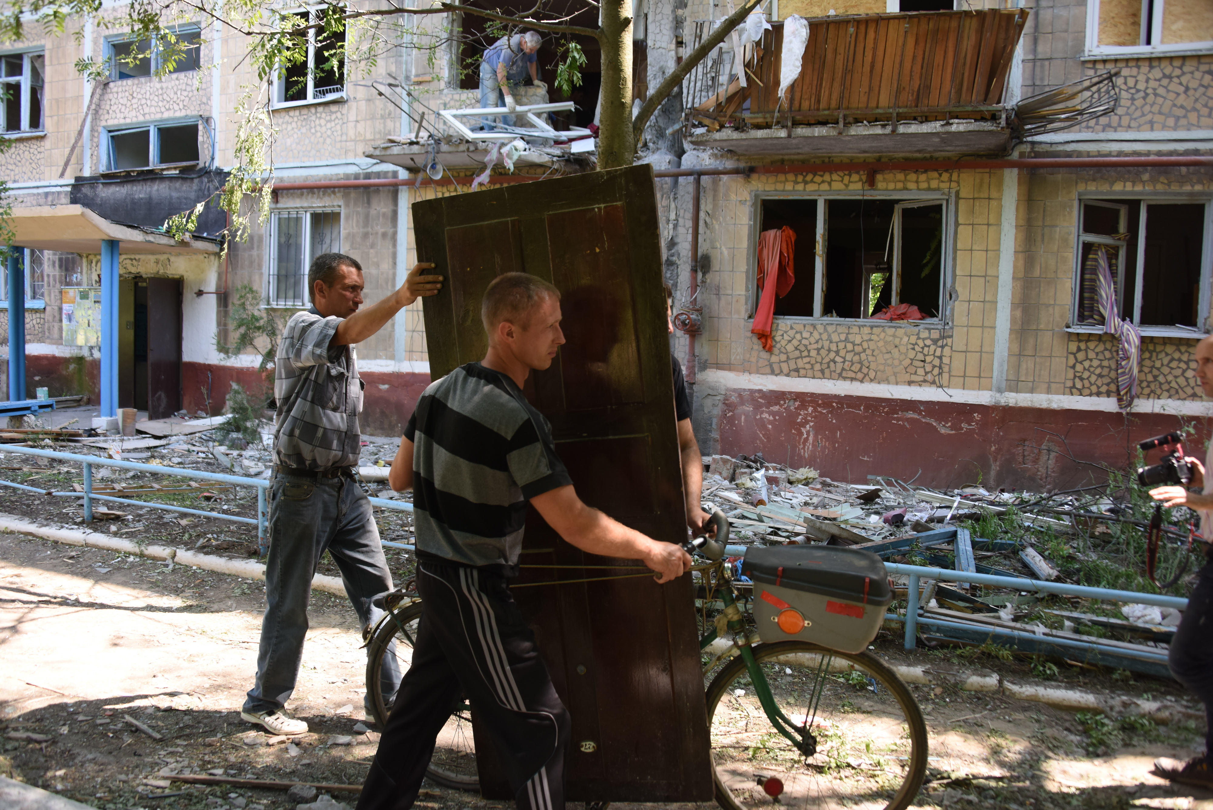 Shelling aftermath in Horlivka, Donetsk district, Eastern Ukraine, 11 June 2015